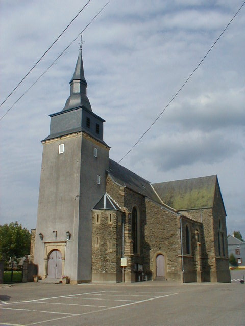 Church of Habay-la-Vieille